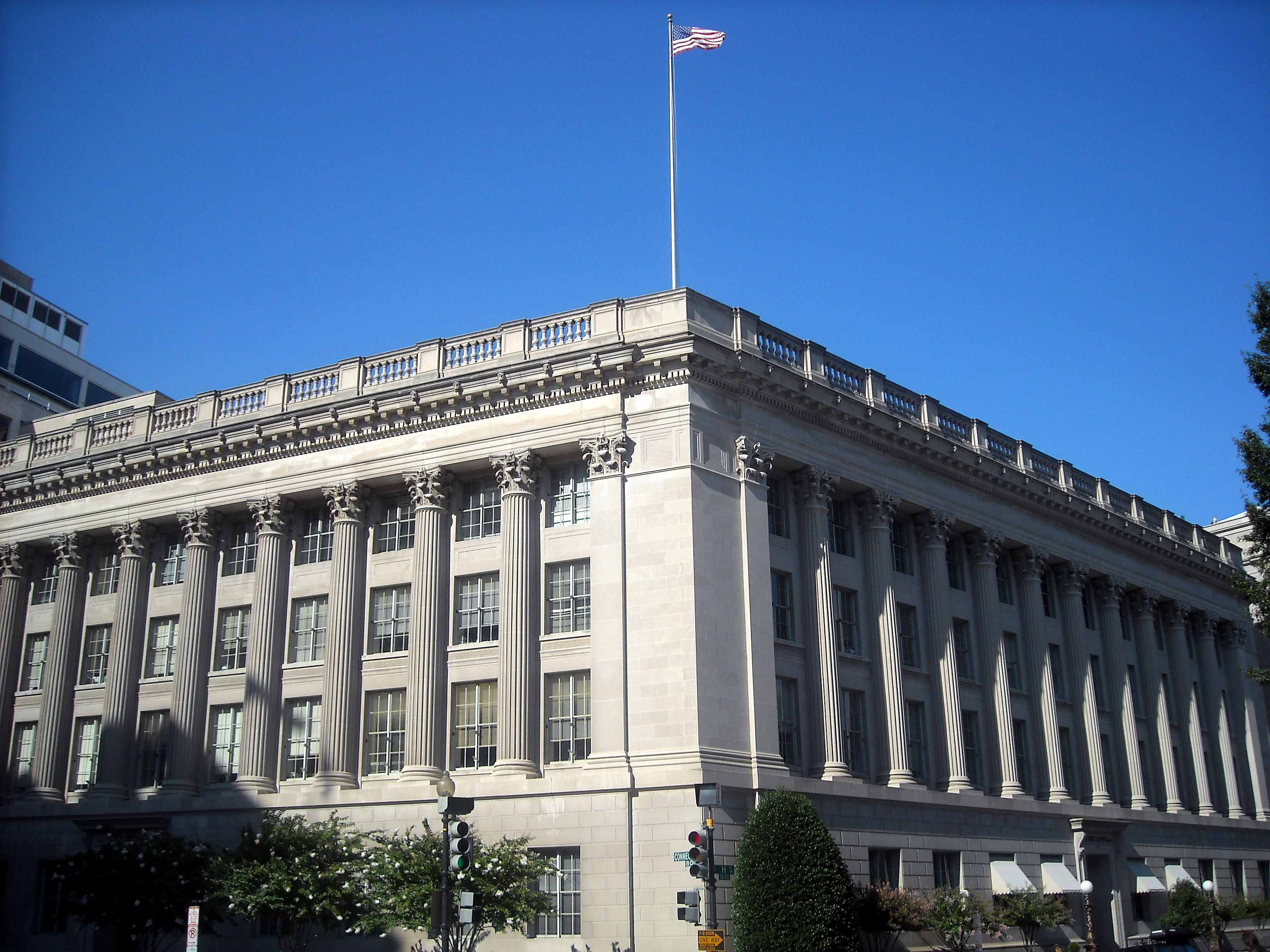 The United States Chamber of Commerce headquarters at 1615 H Street, NW in Washington, D.C. The building is listed on the National Register of Historic Places.